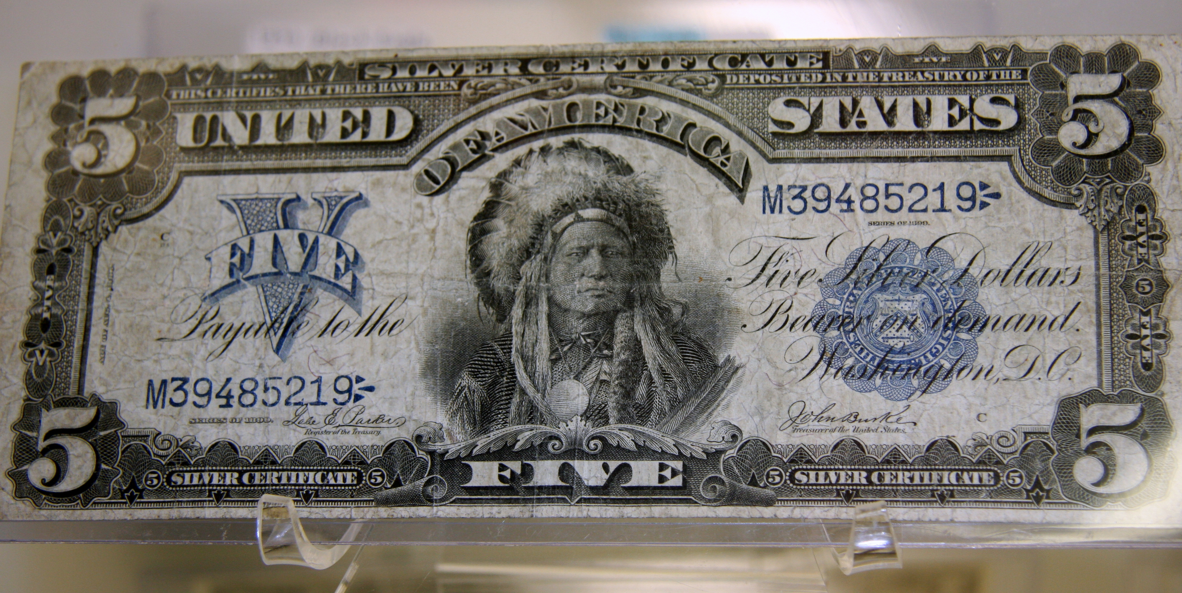 Photograph (taken by the uploader) of a previously circulated 1899 United States five dollar large-size silver certificate, commonly called an Indian Chief note, serial #M39485219, on display in a plastic holder at an antique shop (with thanks to Mark E. for finding it)